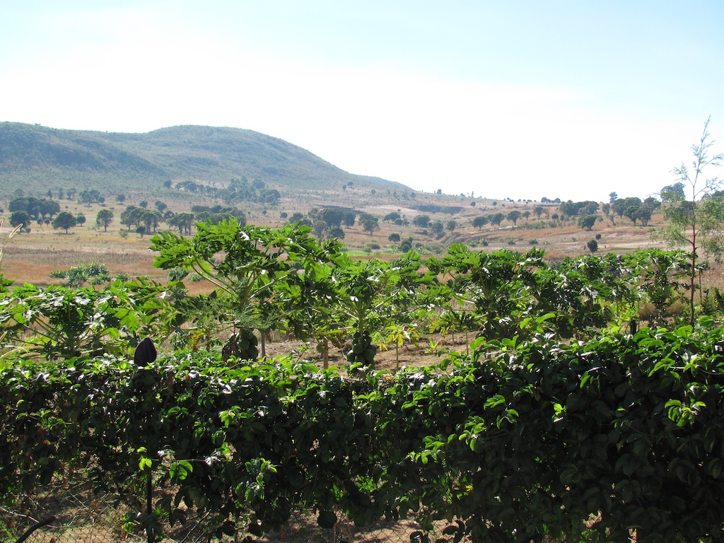 Coopecunha field in Huambo Province (Angola)